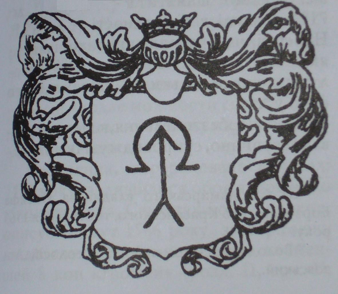 The polish coat of arm "Nieczaj" from book of Wijuk Wojciech Kojałowicz "Herbarz Rycerstwa Wielkiego Księstwa Litewskiego zwany Compendium". Published by F. Piekosiński (Kraków, "Herold Polski") in 1897.